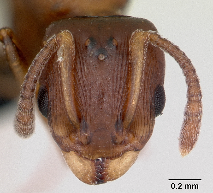 Head view of ant Nesomyrmex madecassus specimen casent0487131.